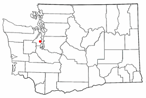 Bremerton, WA, USA